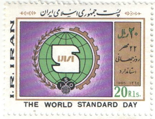 1985 "The World Standard Day" stamp of Iran